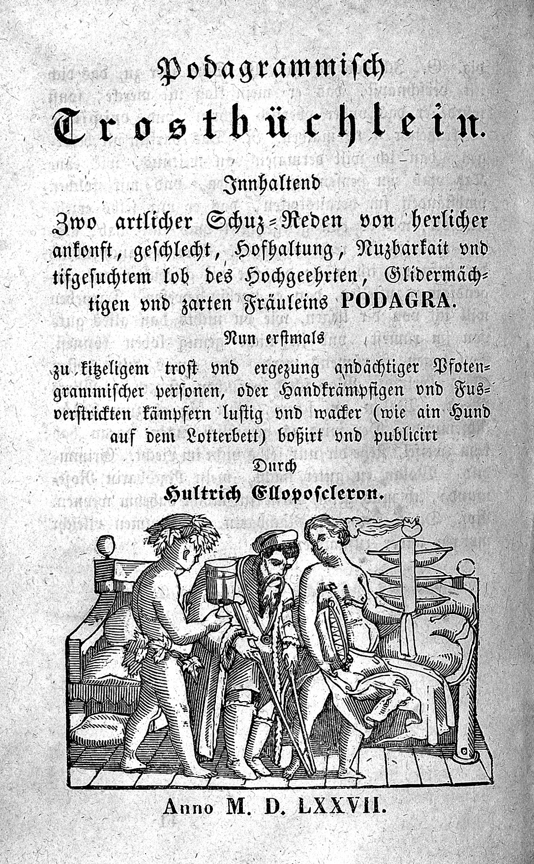 Gouty man walking with sticks, two companions offering him food and drink. Title page of "Podagrammisch Trostbuchlin", Johann (called Mentzer) Fischart, 1577 Rare Books Keywords: folklore, german; Johann Fischart